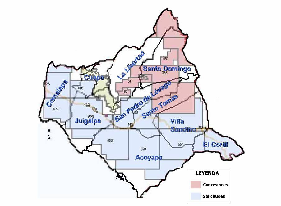 Concesiones Mineras Chontales